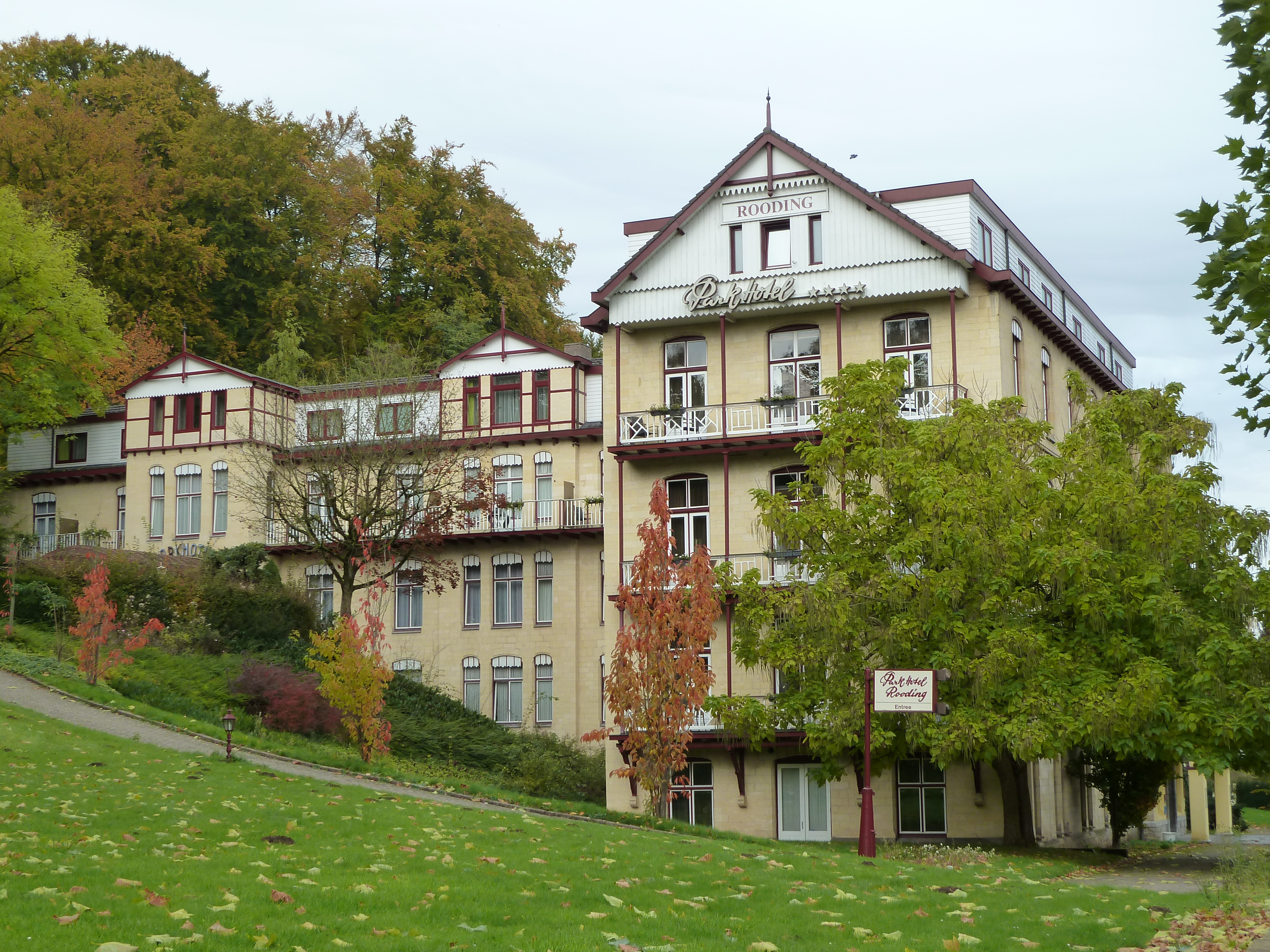 Neerhem 68, Valkenburg, Limburg, the Netherlands